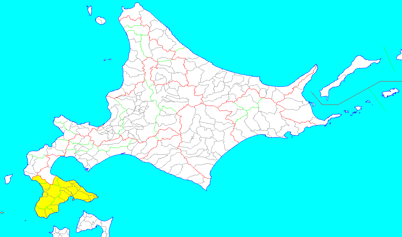 area of Oshima provinces of Hokkaido in Japan(1869/08/15)